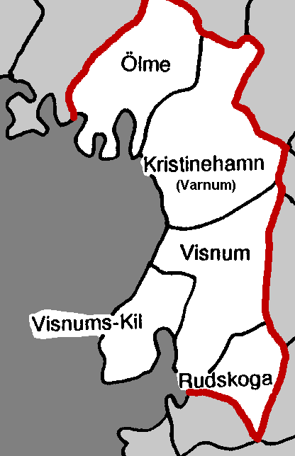 old municipalitities of Kristinehamn